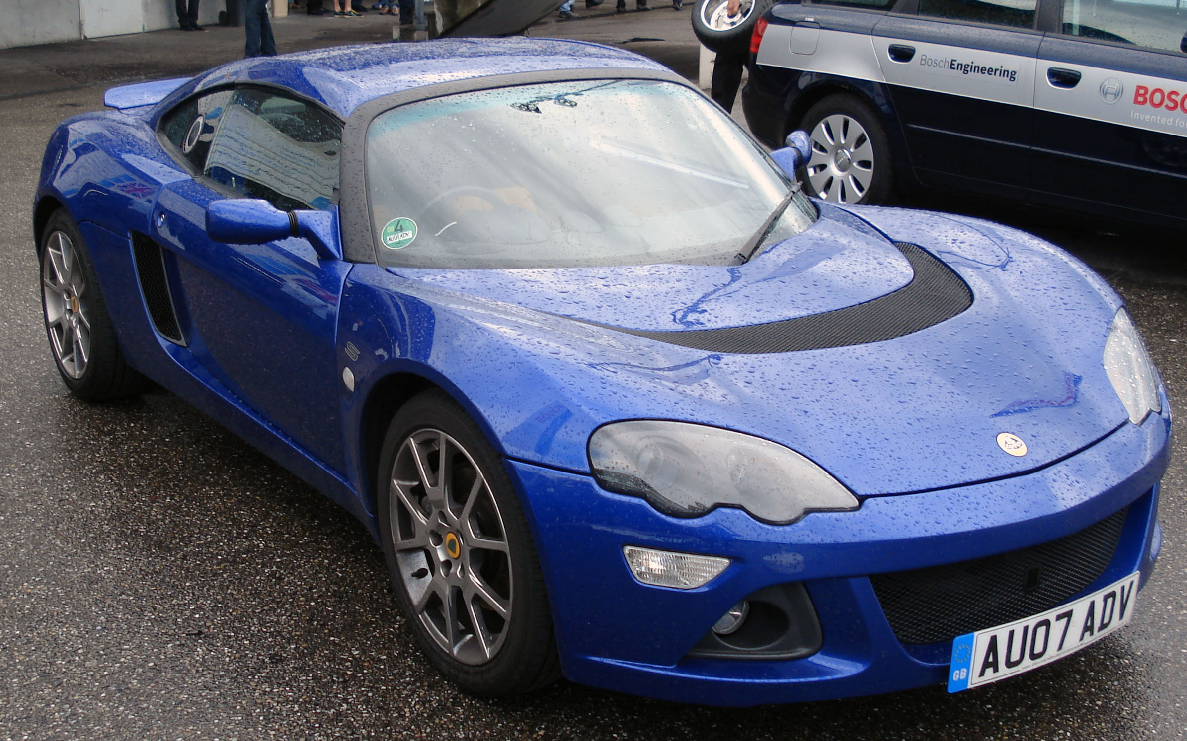 Lotus Europa S at the Formula Student Germany event 2008.